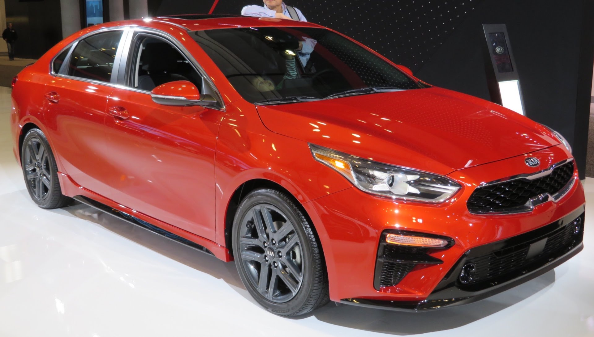 In New York International Auto Show, at Manhattan, New York, USA